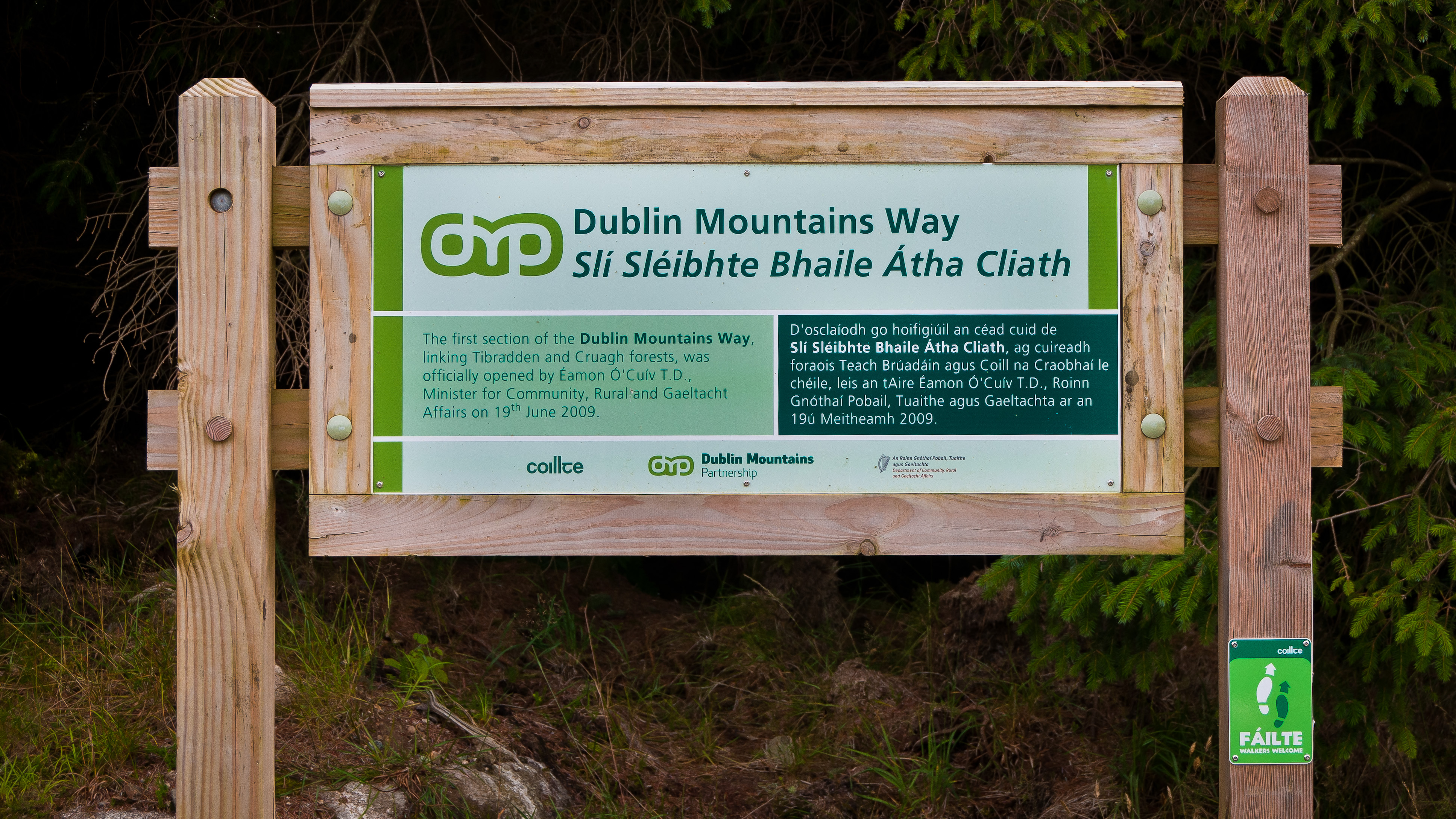 Dedication plaque, unveiled by Eamon O'Cuiv, MInister for Community, Rural and Gaeltacht Affairs, marking the opening of the first section of the Dublin Mountains Way